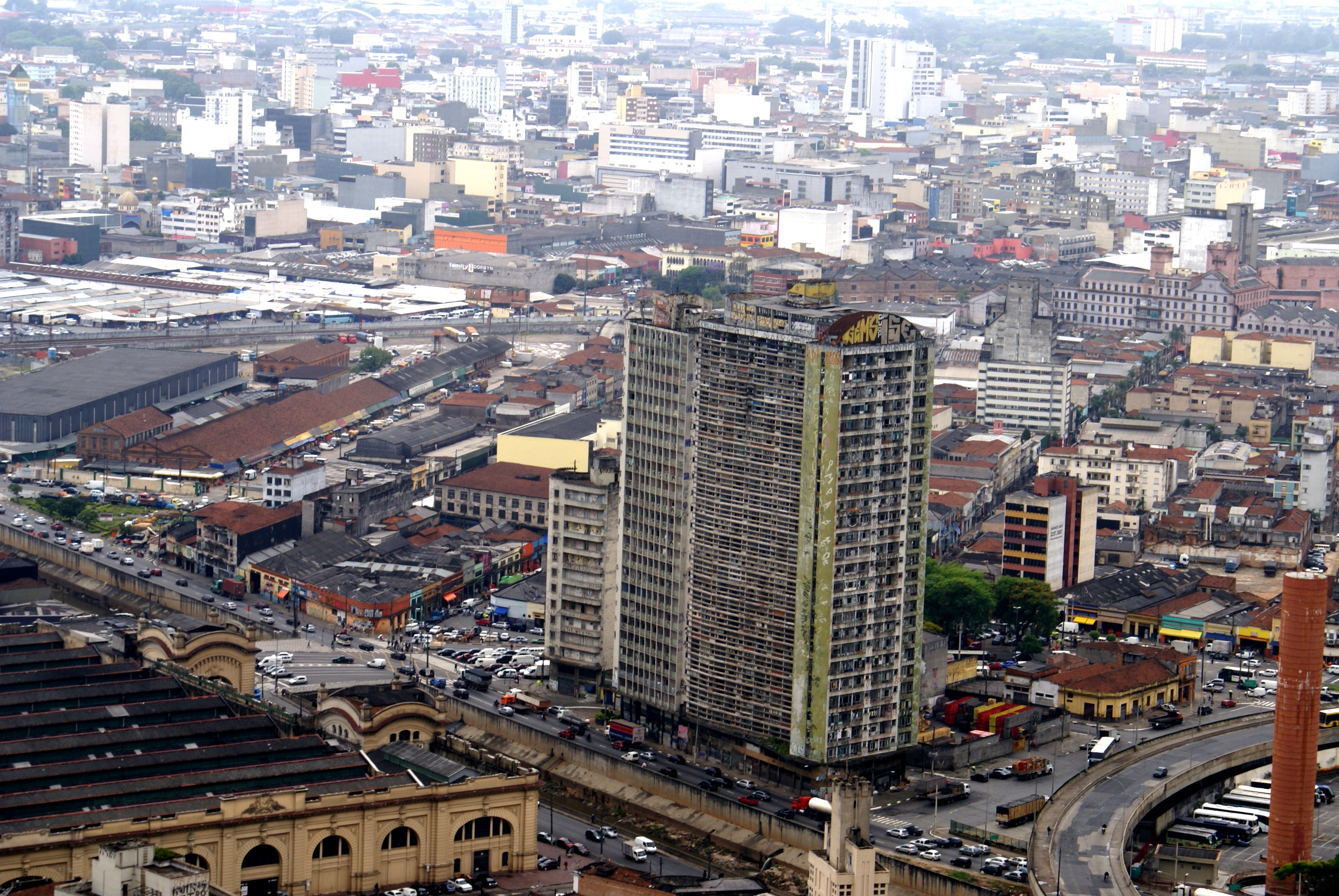 São Vito Building in Old Downtown of São Paulo City, Brazil.